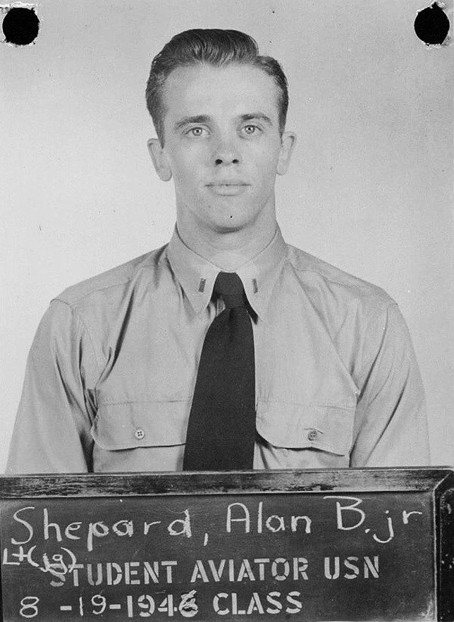 Lieutenant (jg) Alan B. Shepard, Jr., as a student aviator